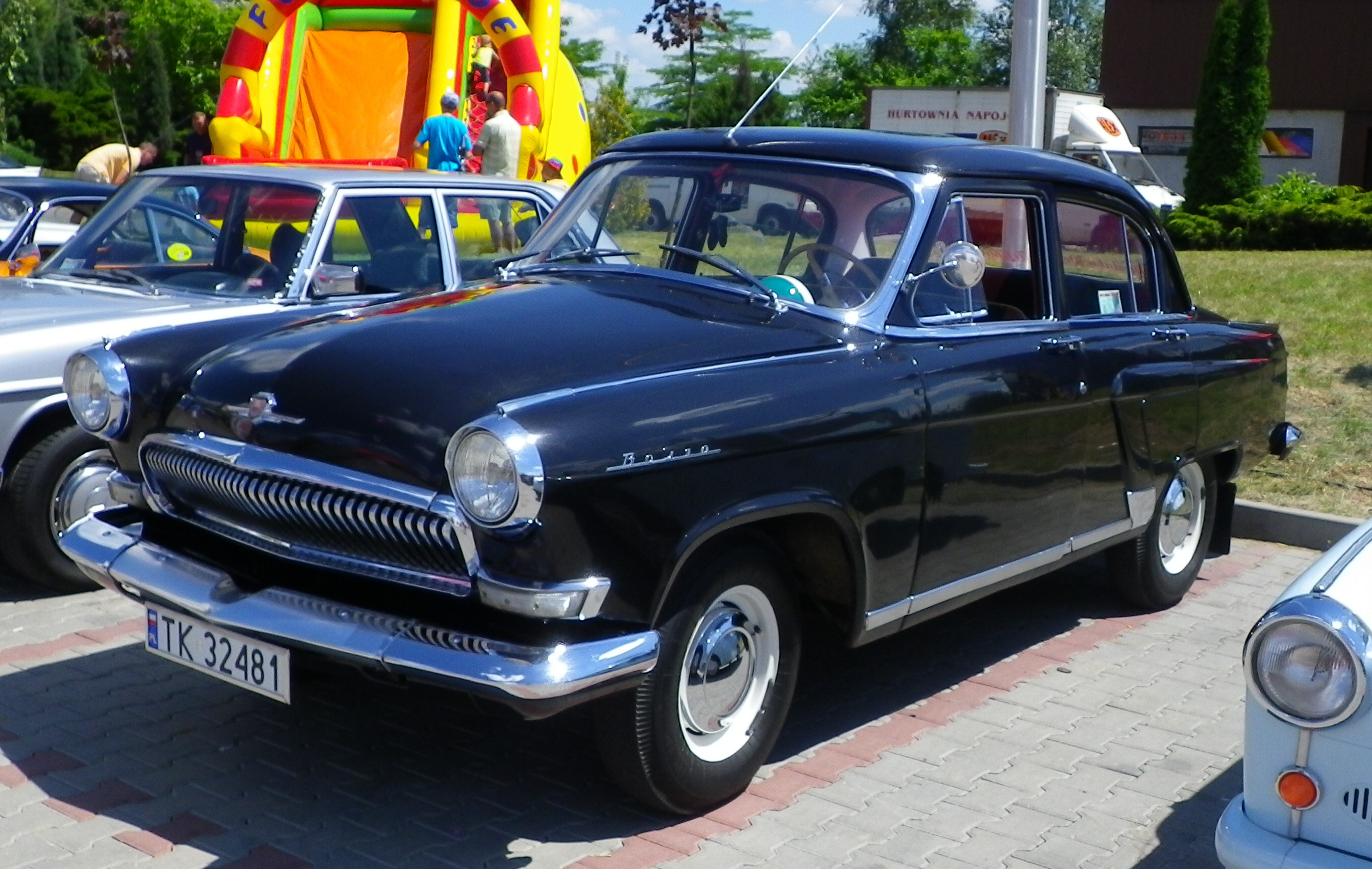 GAZ-21 Volga